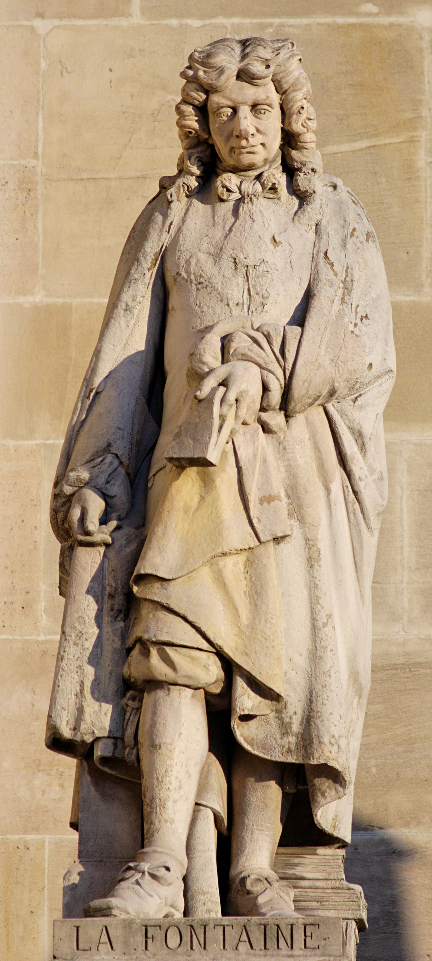 La Fontaine.